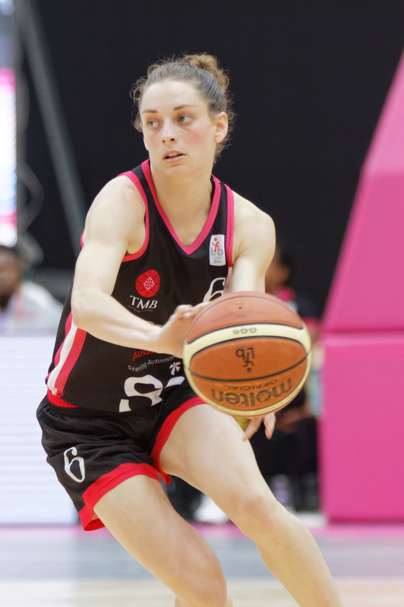 Open LFB, Toulouse-Mondeville, October 5th, 2013.